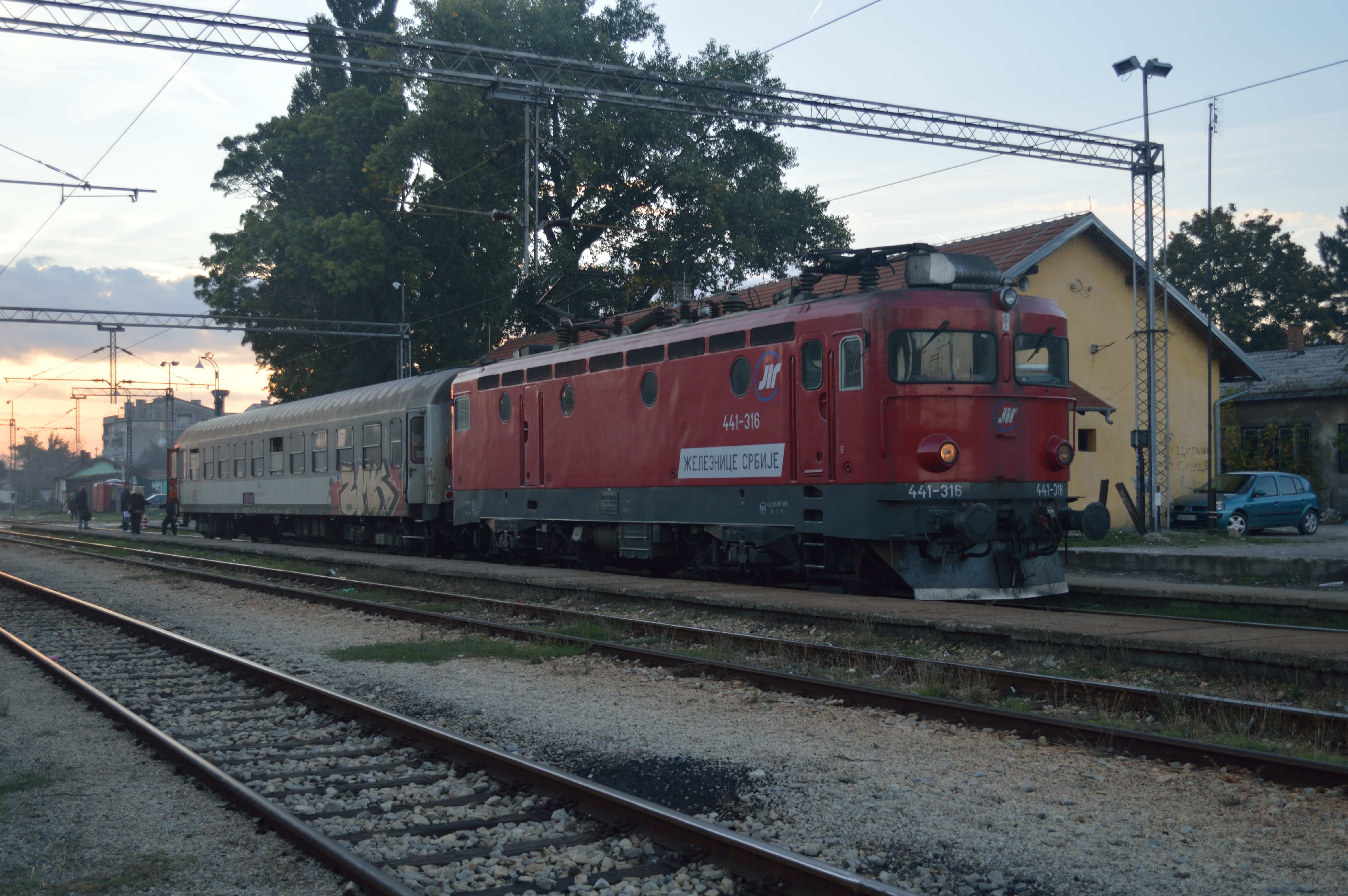 Balkans Rail Trip, Autumn 2013 - Day Four Early morning shot of loco 441.316 on a single coach train, no. 6750, 06:00 Požarevac to Smederevo. The loco ran round and formed my first train journey of the day. However, the train crew took objection to this and despite perfect lighting I missed out on the opportunity. The Smederevo branch can be quite difficult to fit in and to save time, I took a direct bus from Beograd to here taking a little over 60 minutes. By train would have taken over two hours.